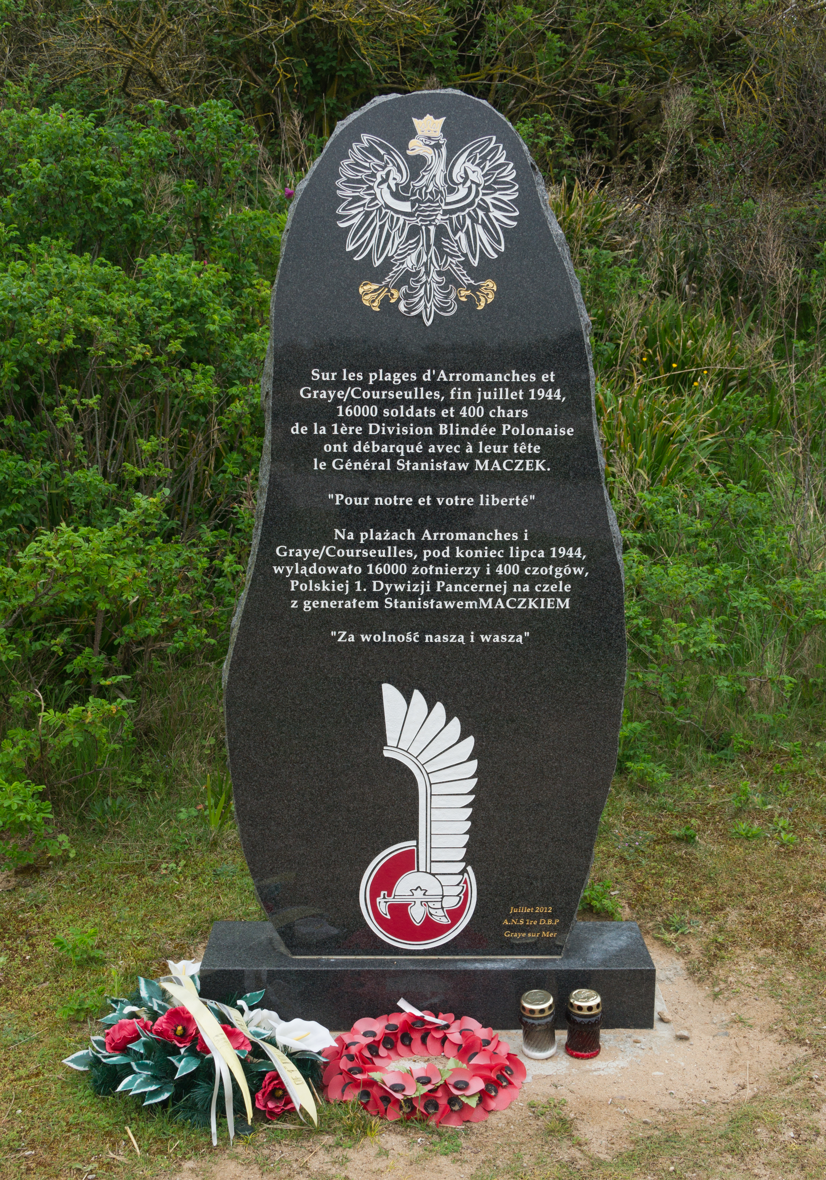 Memorial to the 1st armoured polish division, Normandy 1944, Graye-Courseulles, Calvados, Normandy, France.